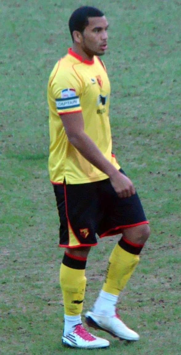 Reworked picture of Adrian Mariappa, based on image here